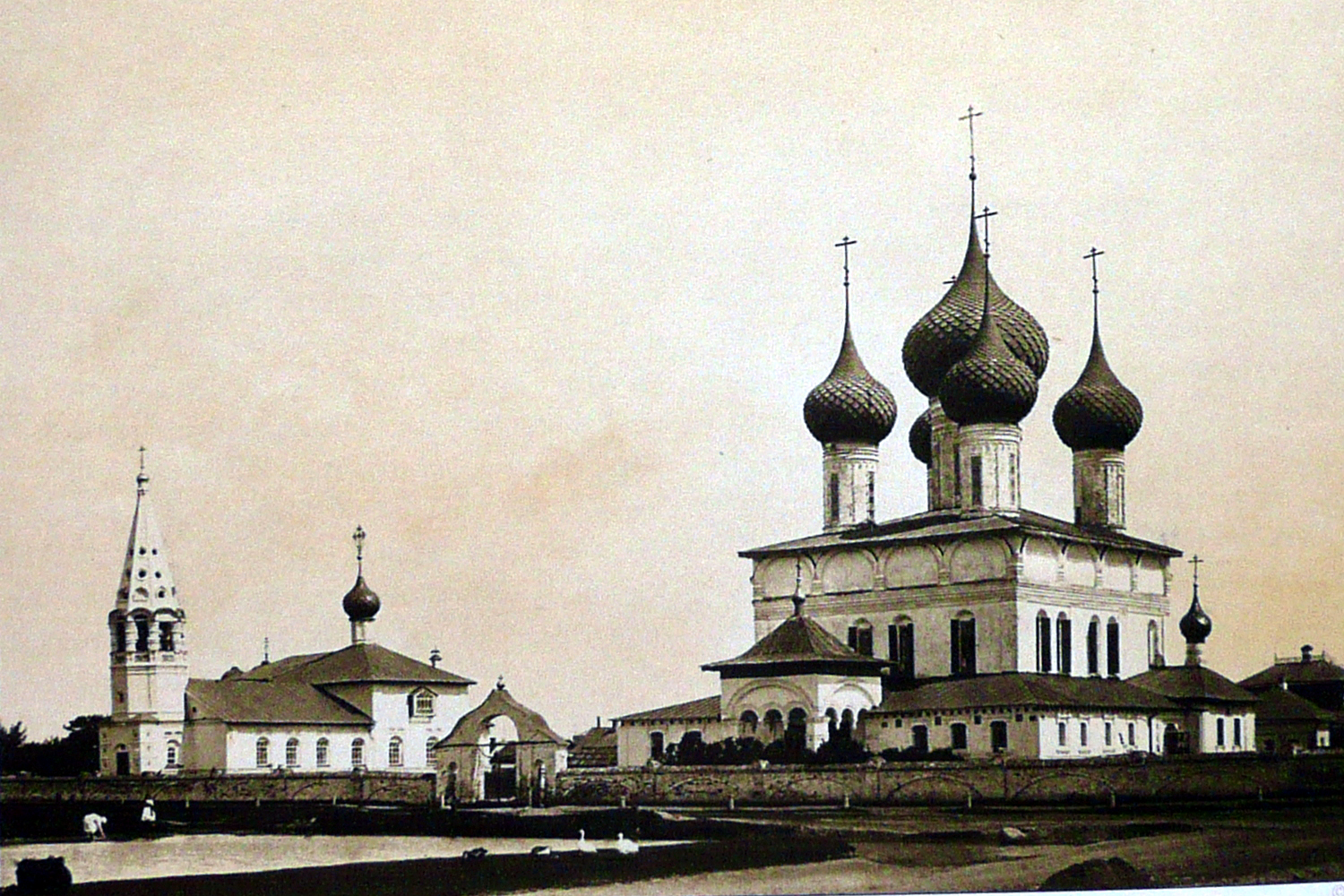 Churches of Our Lady of St. Theodore and St. Nicholas in Yaroslavl